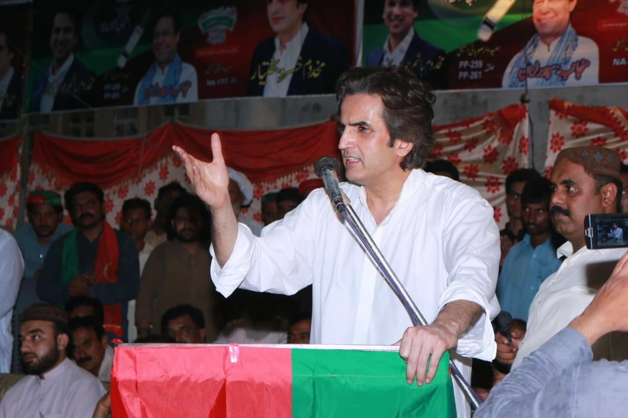 Speech